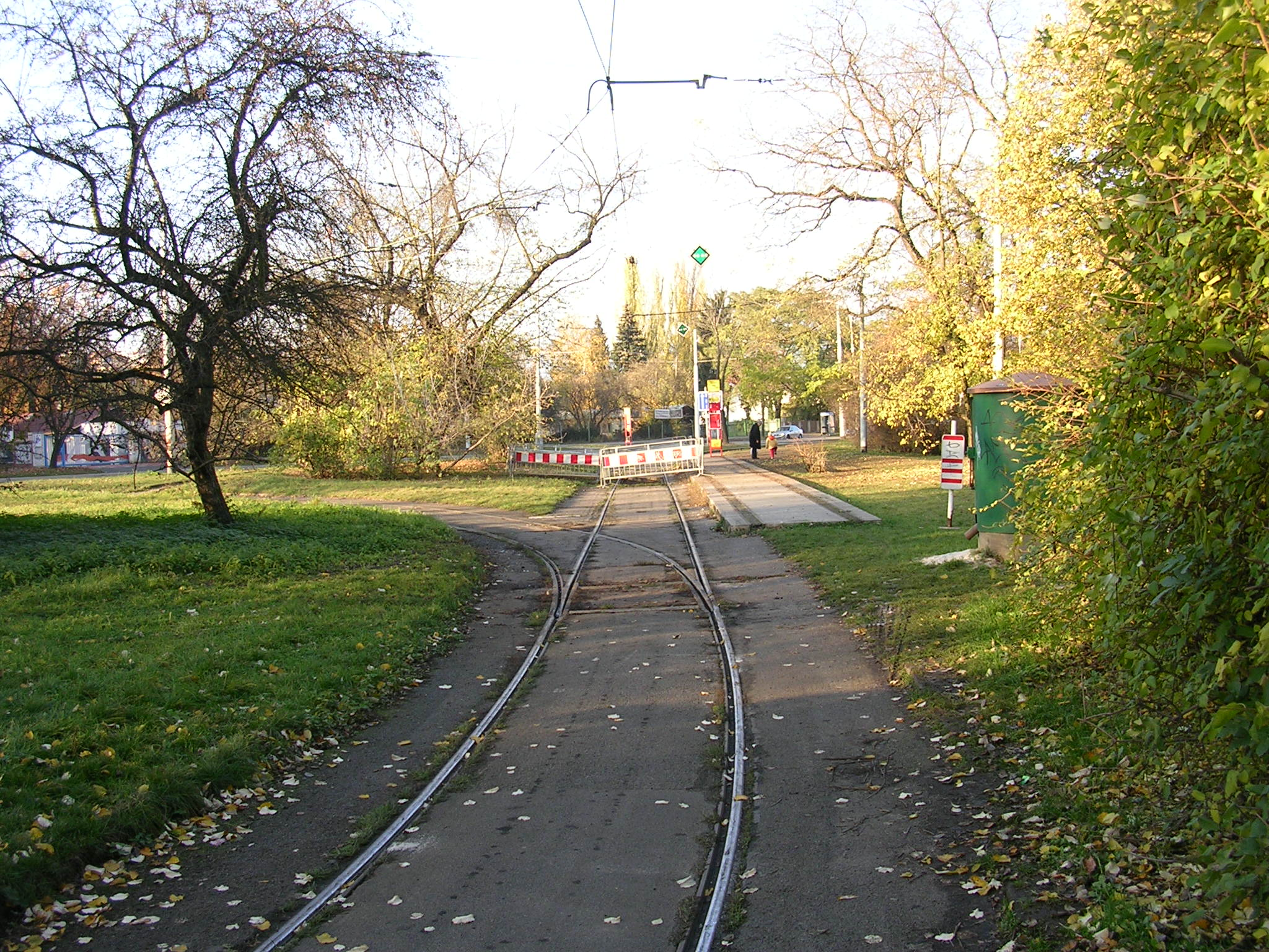 Podolí, Prague. Tram track loop Dvorce.